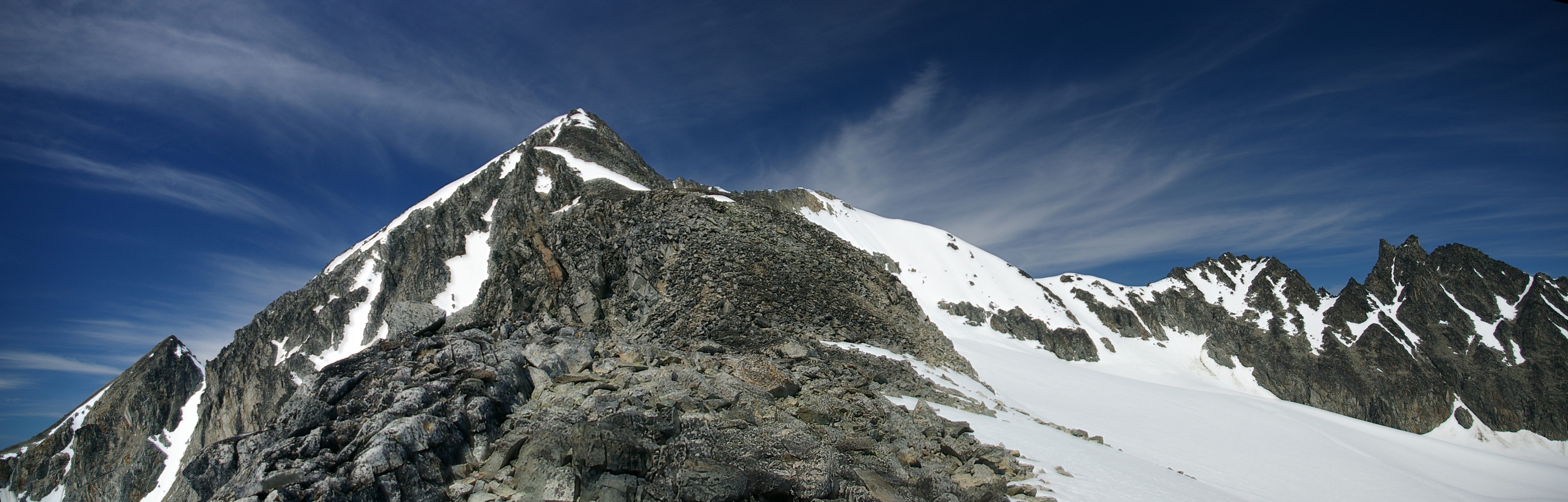 East ridge of Mount Weart (with The Owls on the right)